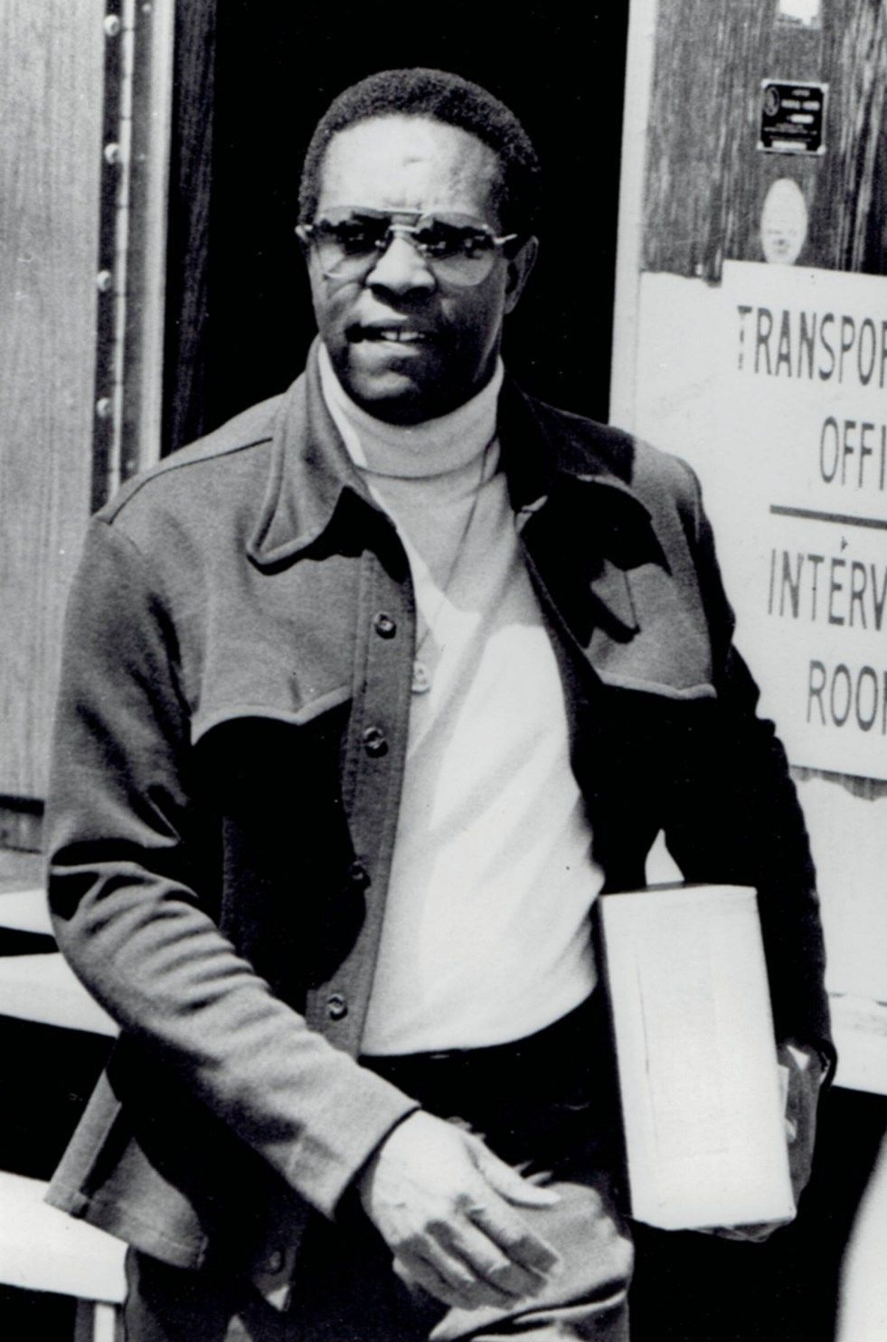 1975 AP Wire Photo 1ST BLACK golfer Lee Elder Masters Tournament Augusta Georgia